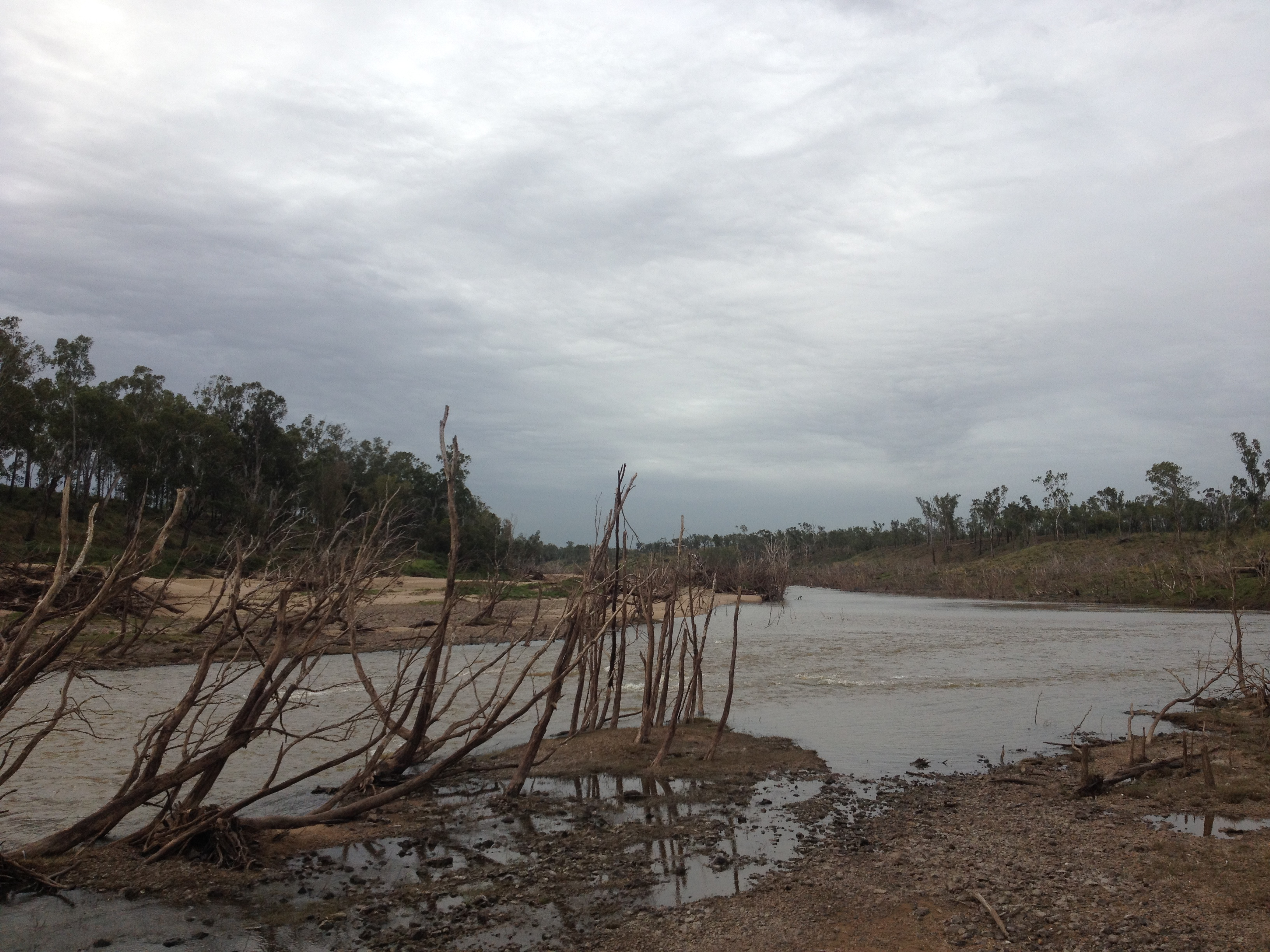 Fitzroy River